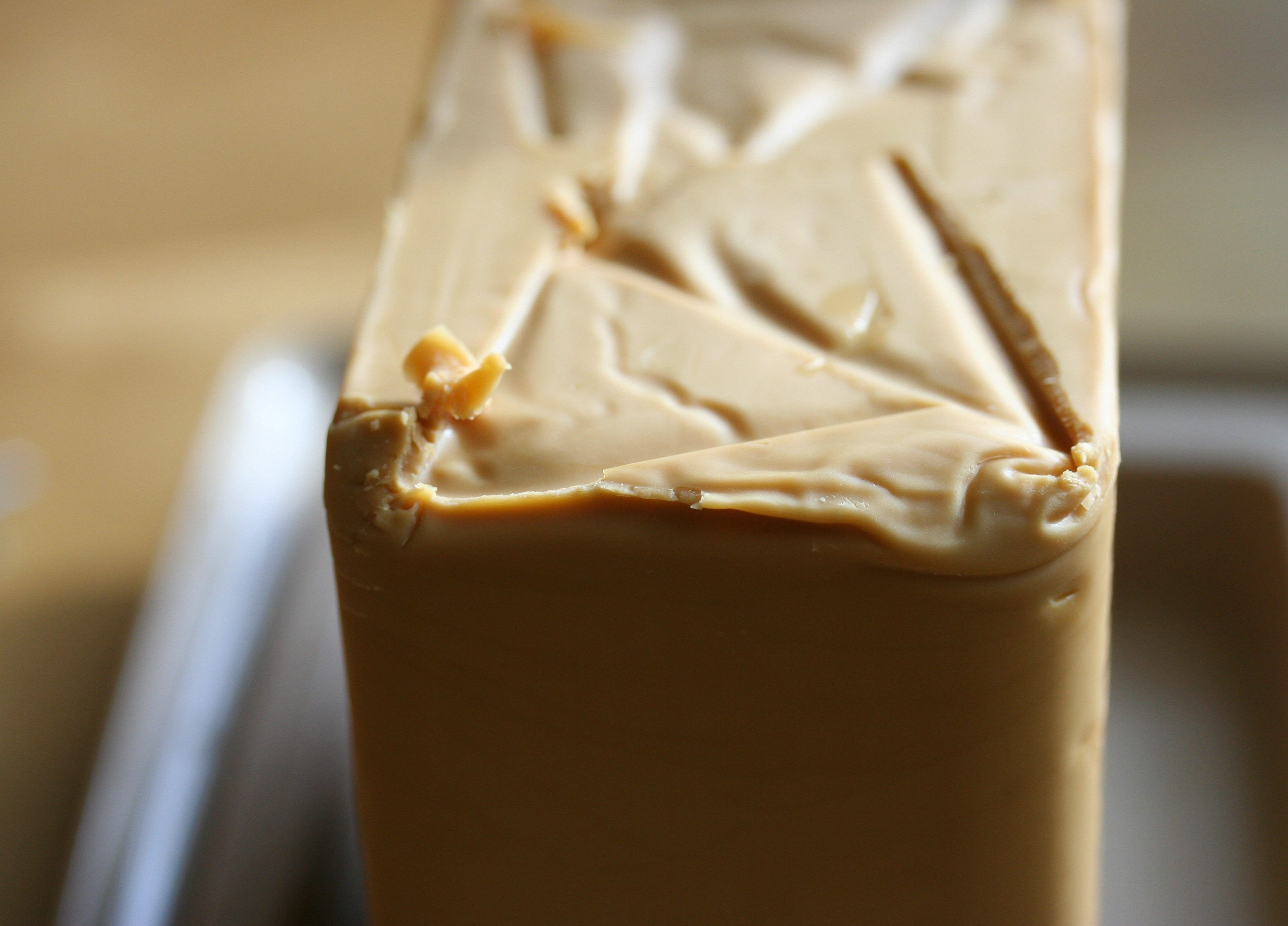 Closeup of brunost, a Norwegian speciality.